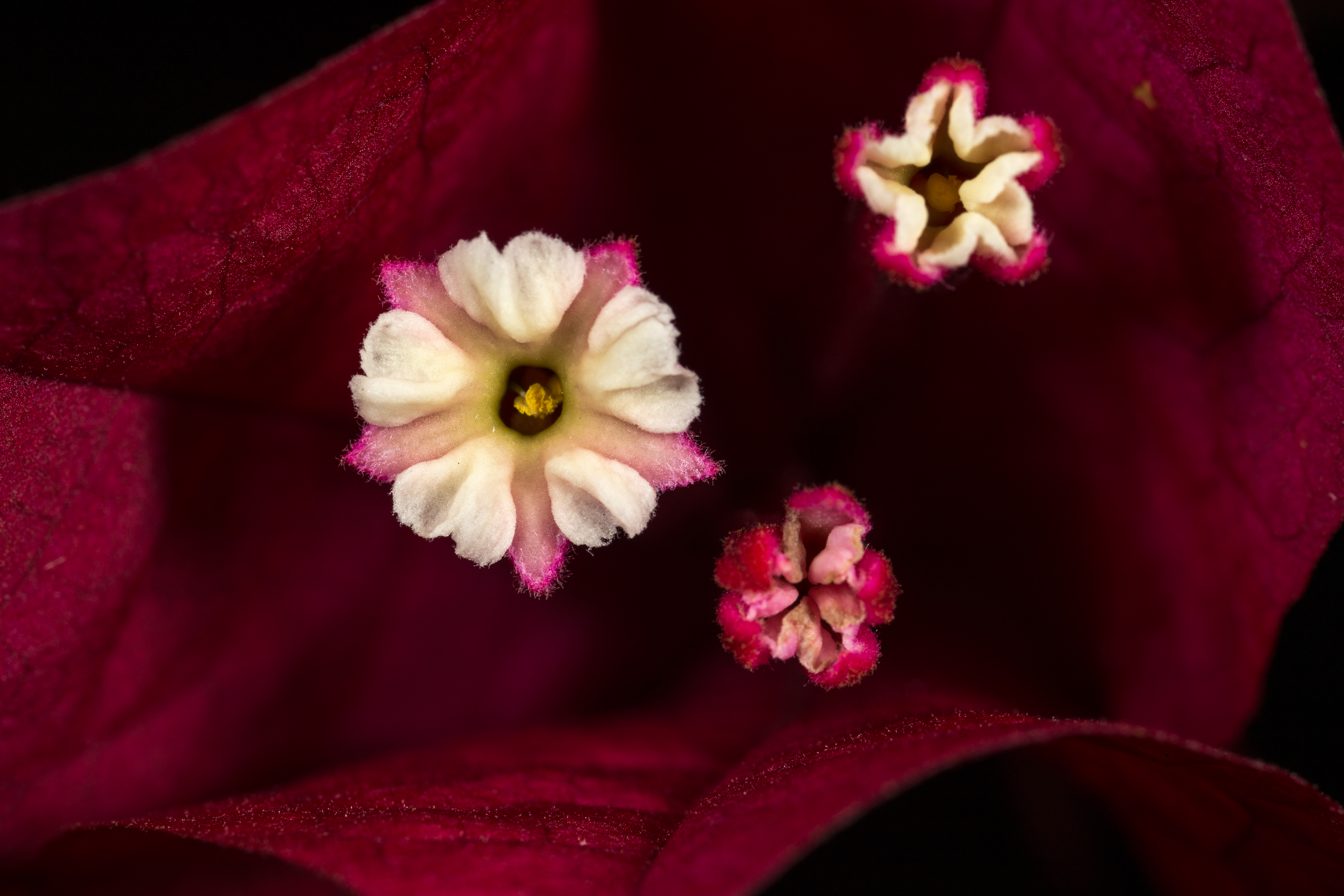 Great Bougainvillea